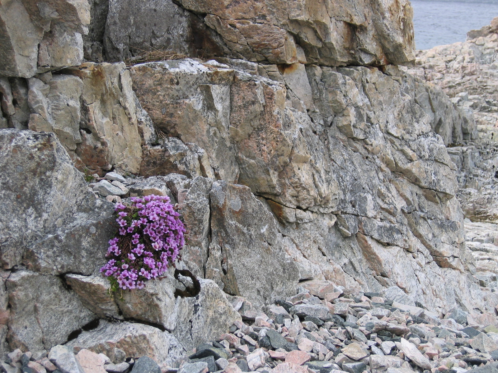 From Sandvika, Brennsholmen, Kvaløya (Tromsø, Norway). The flower is Saxifraga oppositifolia.